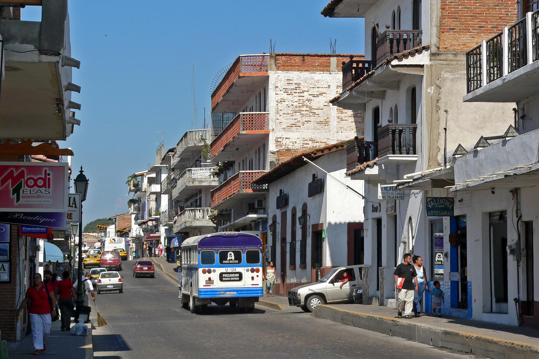 Photo of street in Puerto Vallarta, Jalisco, Mexico